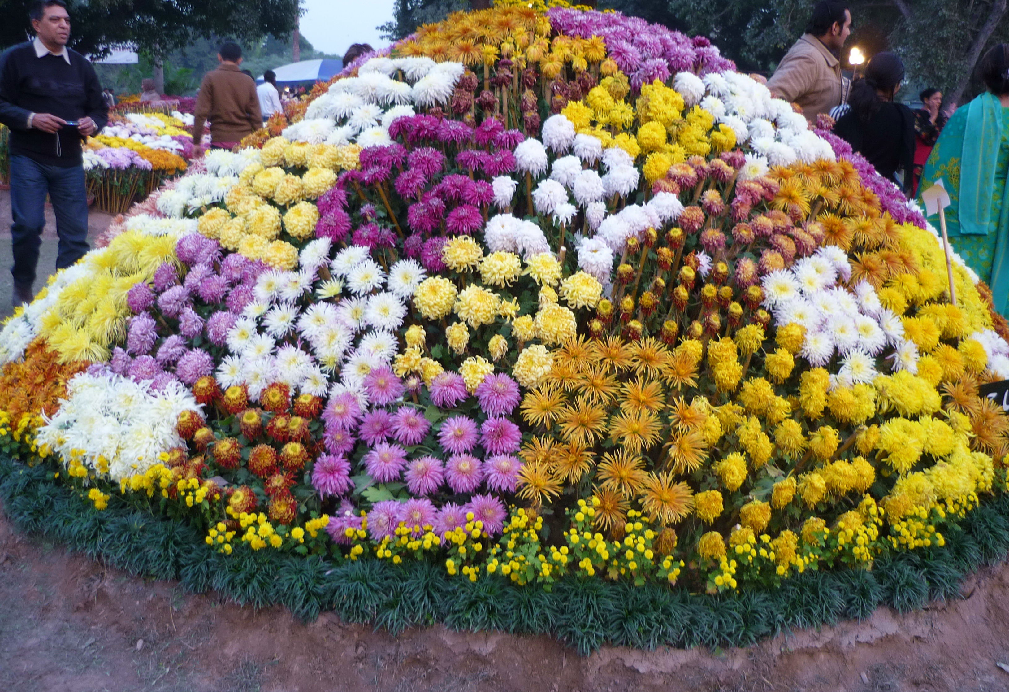 Chrysanthemum arrangements at the annual show in Lahore, Pakistan